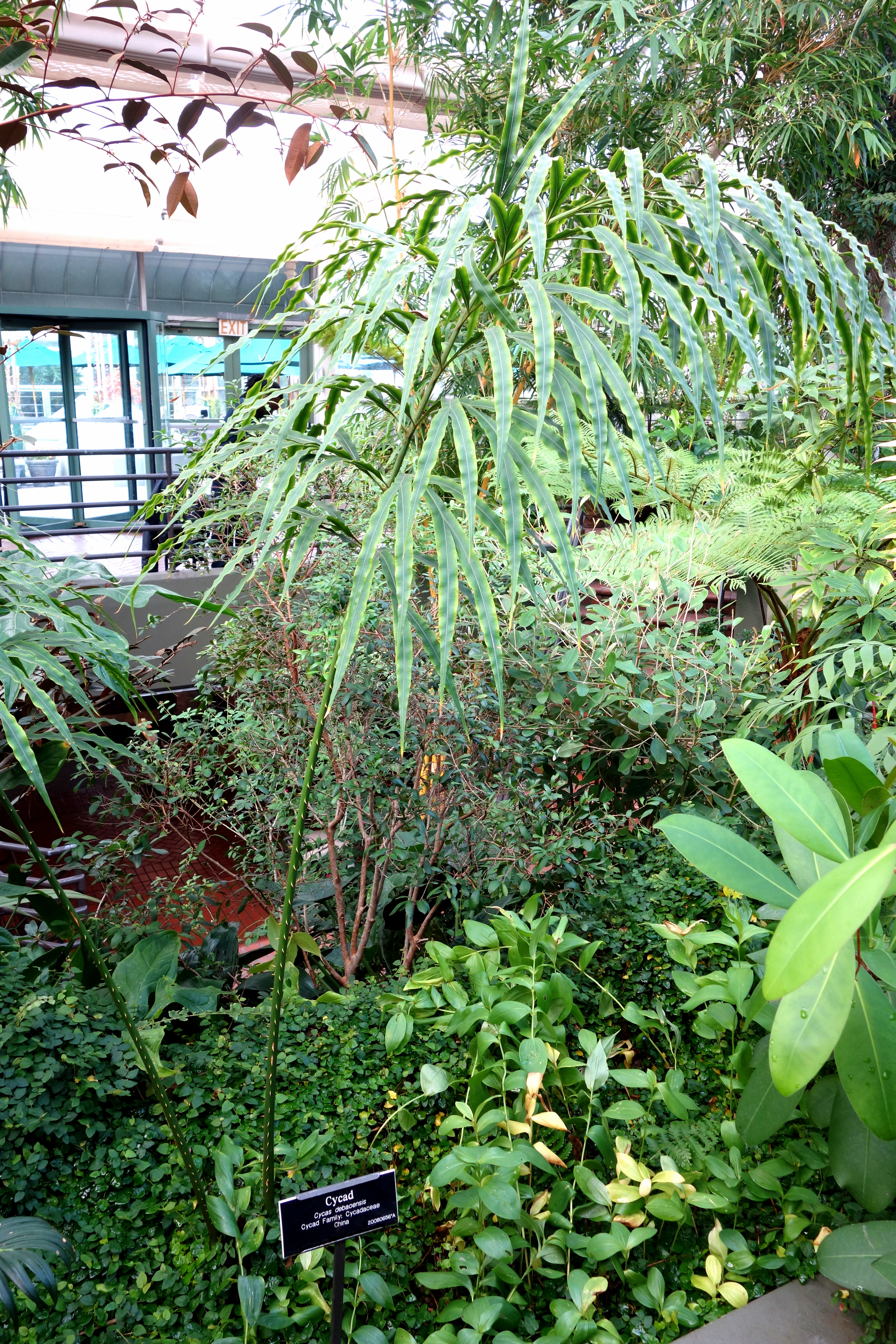 Botanical specimen in the Brooklyn Botanic Garden, Brooklyn, New York, USA.